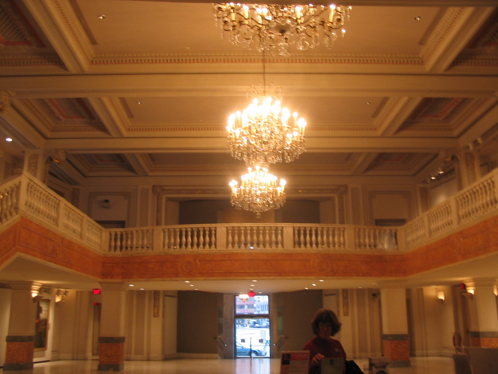 Image taken by me for Wikipedia